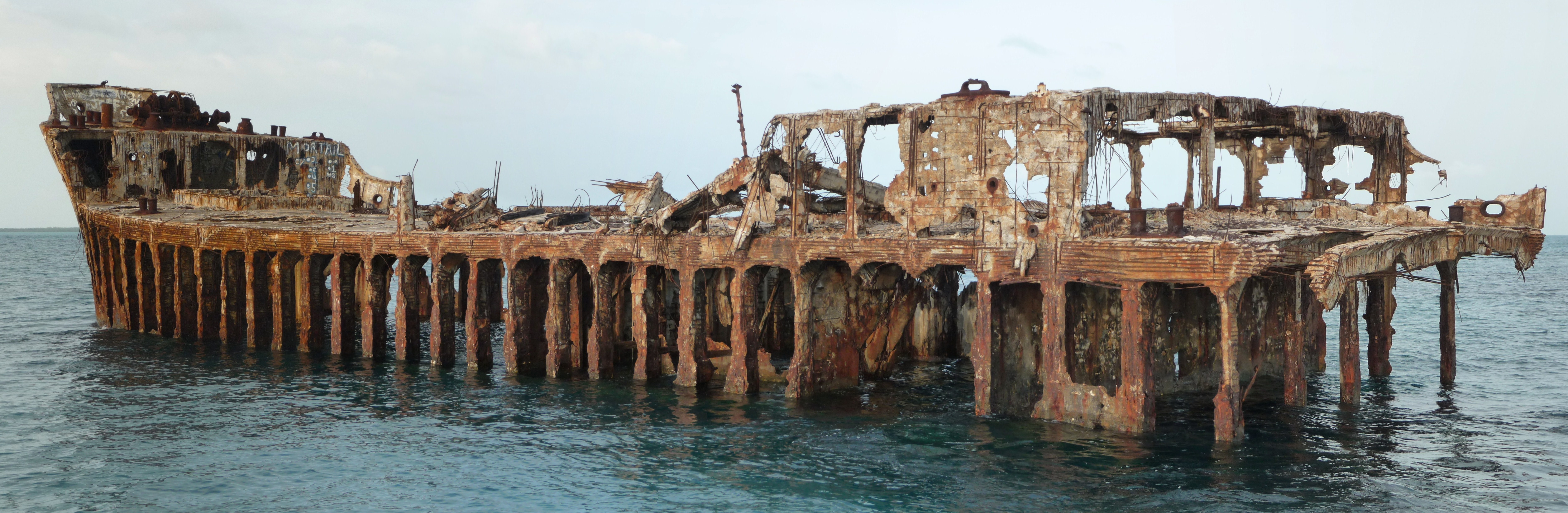 Panoramic photo of the SS Sapona shipwreck off the coast of Bimini, The Bahamas. Taken Aug 19, 2009.